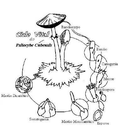 Life cicle of an Psilocybe cubensis